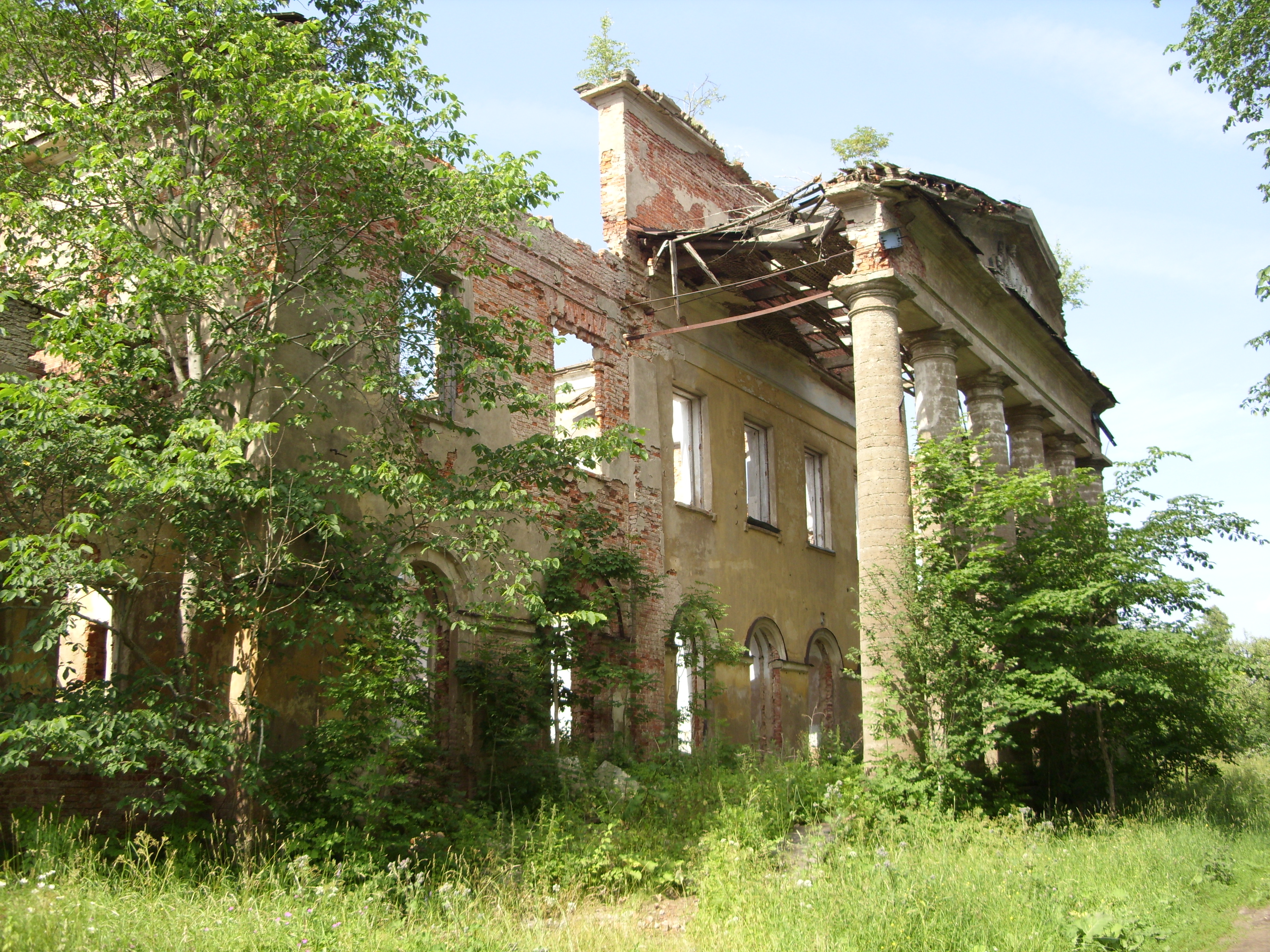 Leningrad obl. Kotly. Usad'ba